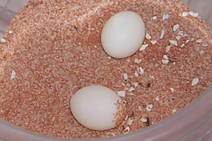 Clutch of 2 Agamura persica eggs